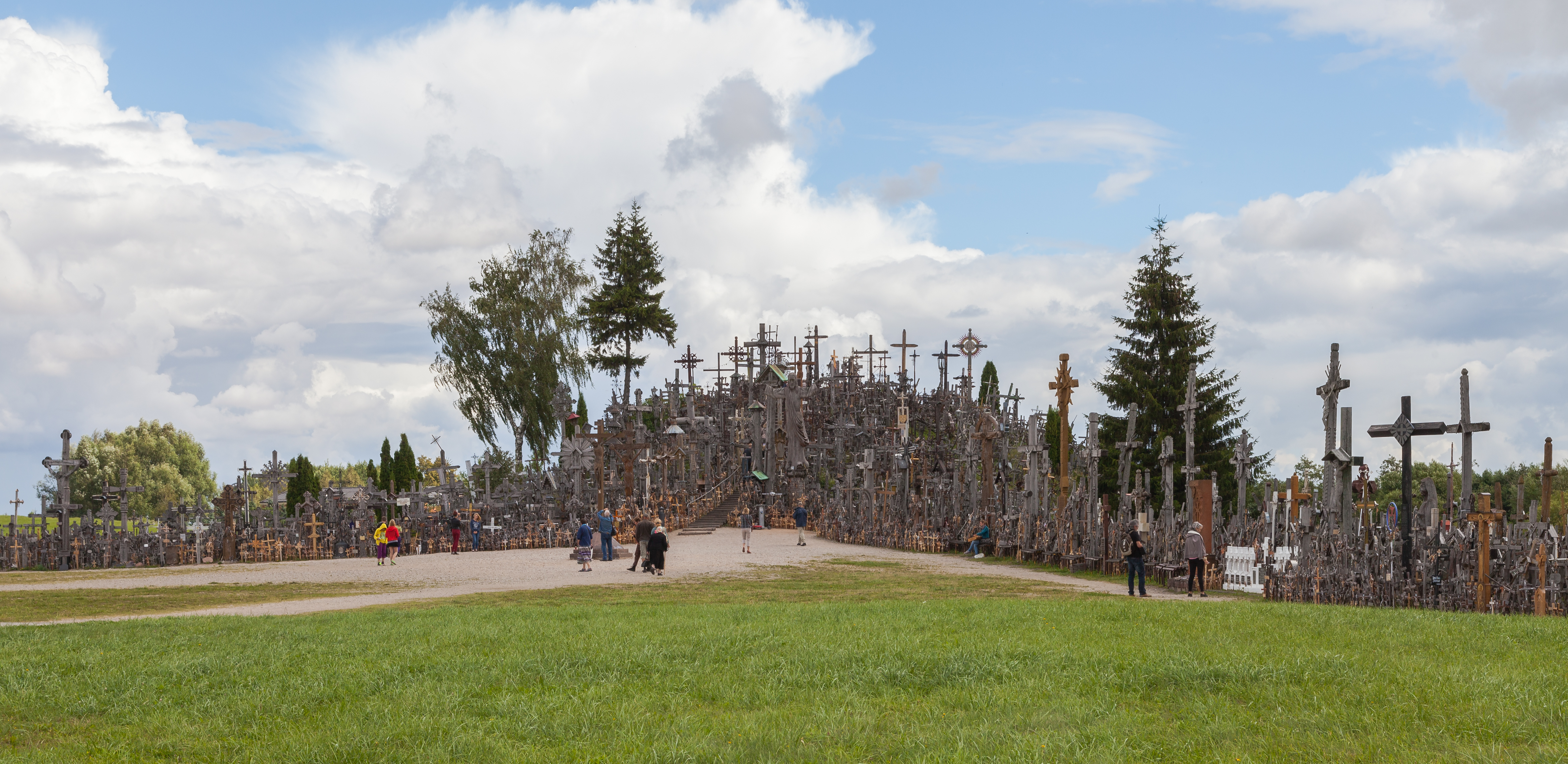 Hill of Crosses, Lithuania